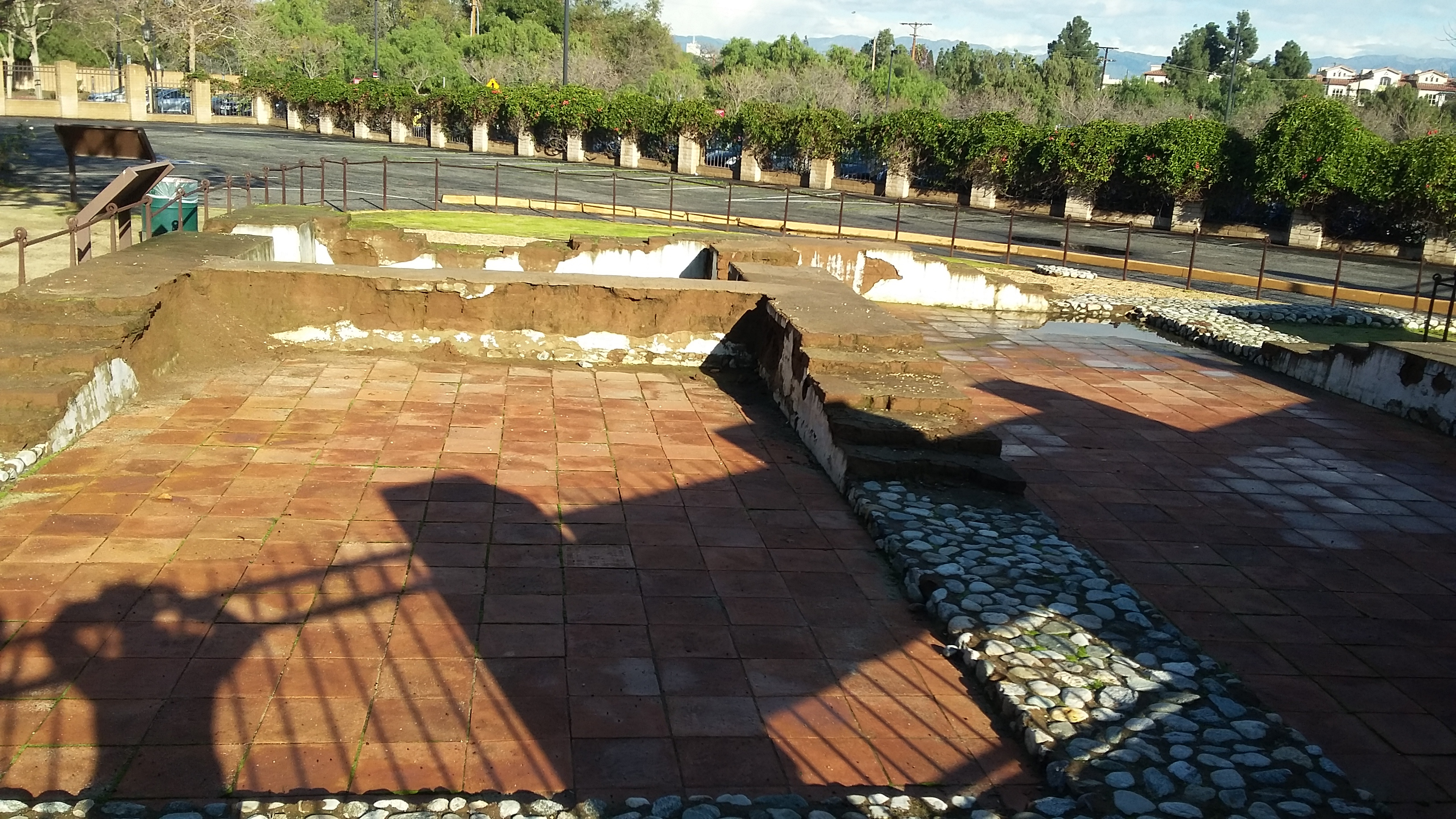 Foundations of Campo de Cahuenga